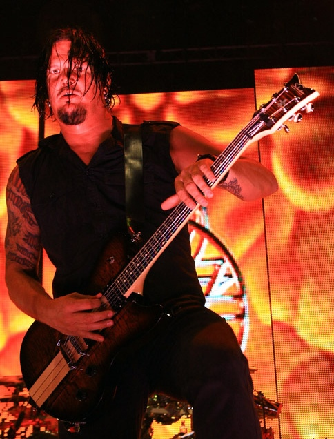 Dan Donegan at the 2010 Uproar Festival.